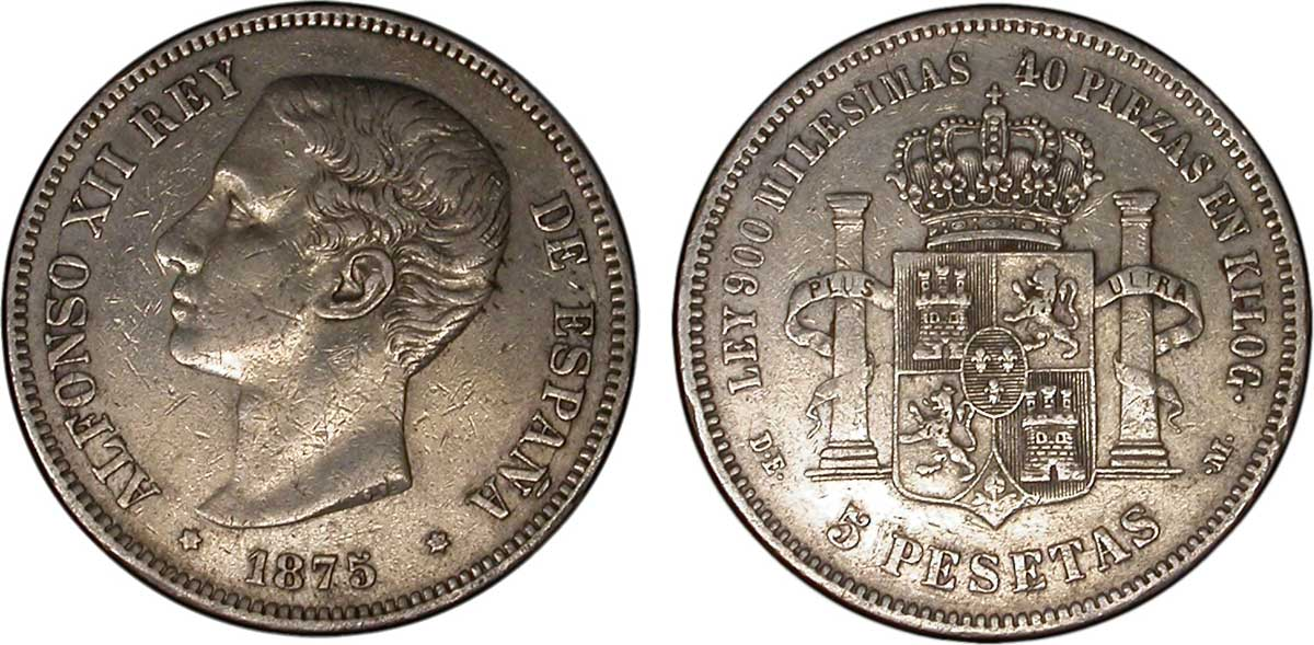 5 Pesetas à l'effigie d'Alphonse XII,1875